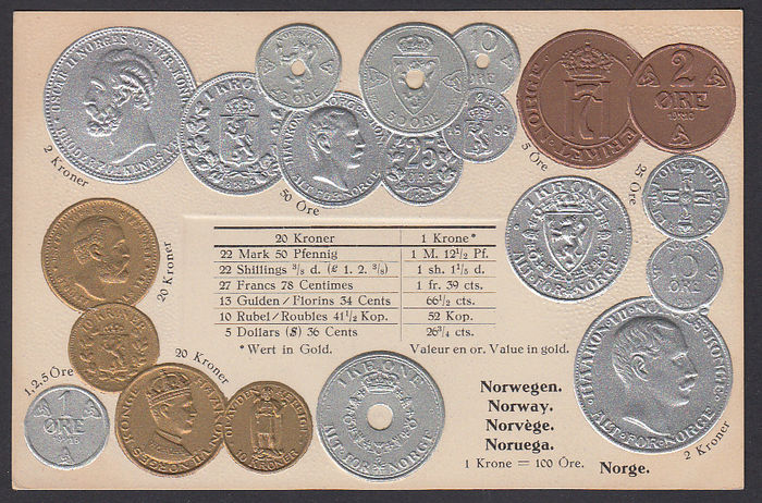 A postcard depicting the coins that circulated at the time.